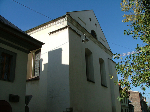 Isaac Synagogue in Kraków